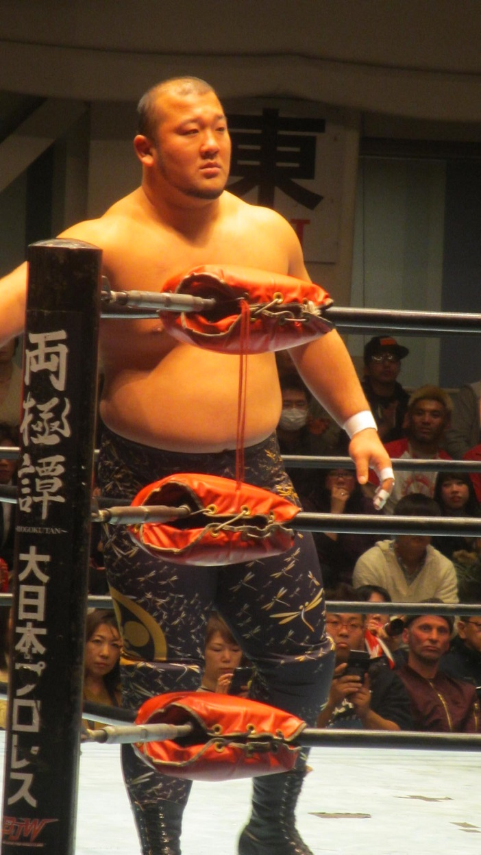 Japanese professional wrestler, Shogun Okamoto. Dec 30 2016, BJW Korakuen Hall.